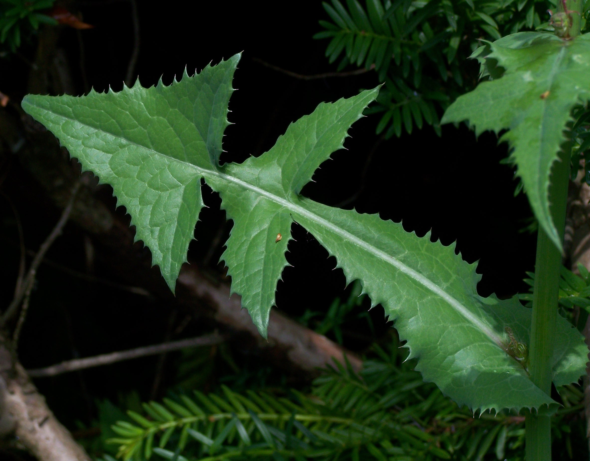 Smooth Sowthistle. A middle leaf. What a shape!